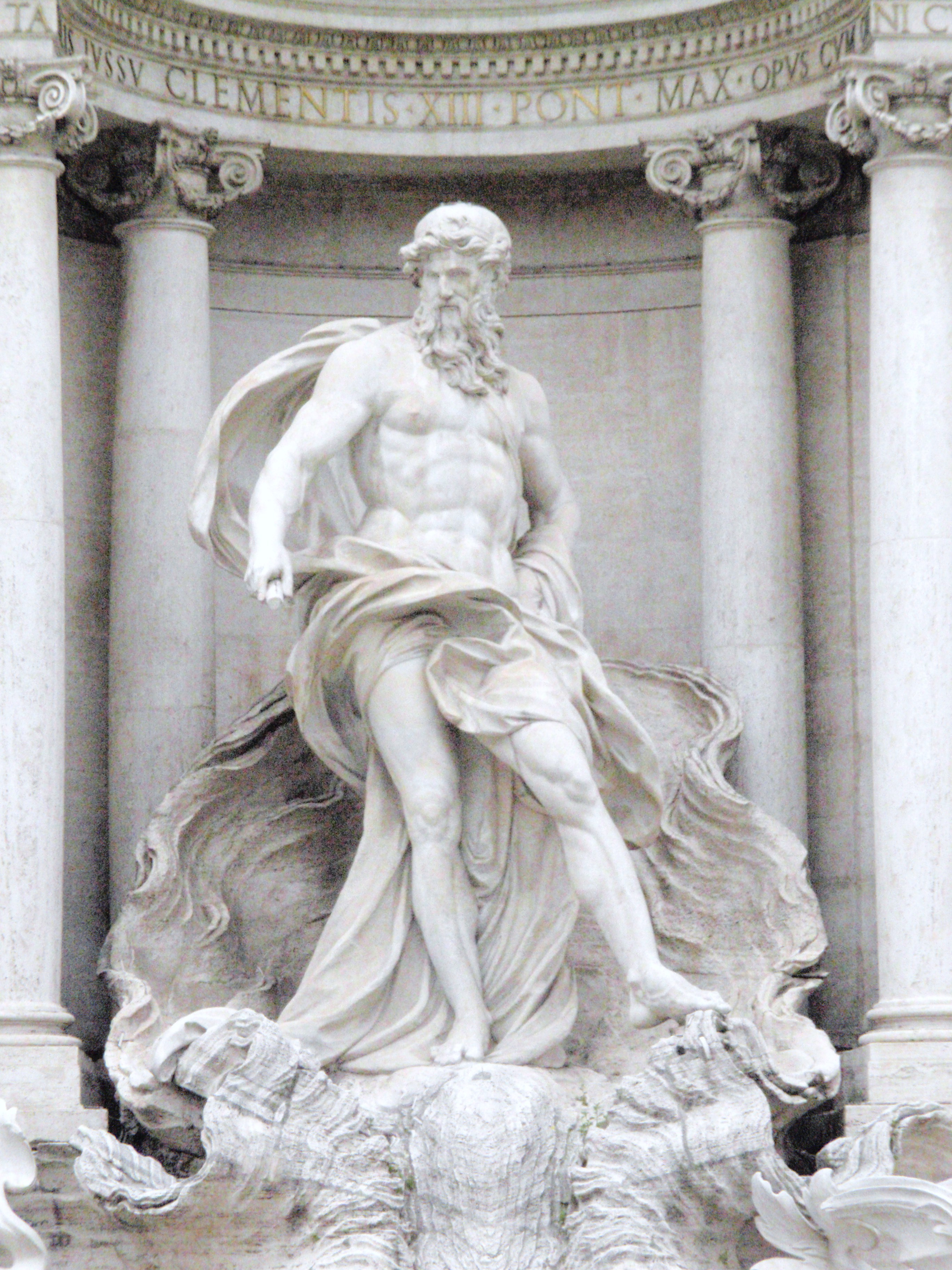 Oceanus in the Trevi Fountain, Rome.